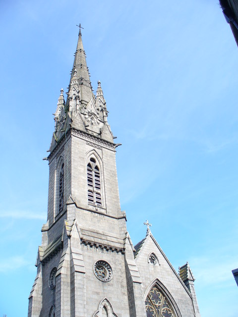 St Mary's Spire Added in 1877 by Robert Wilson to the 1860 church of Alexander Ellis. The spire was built to celebrate the raising in status of R.C. St Mary's to a cathedral. Aberdeen has three cathedrals.